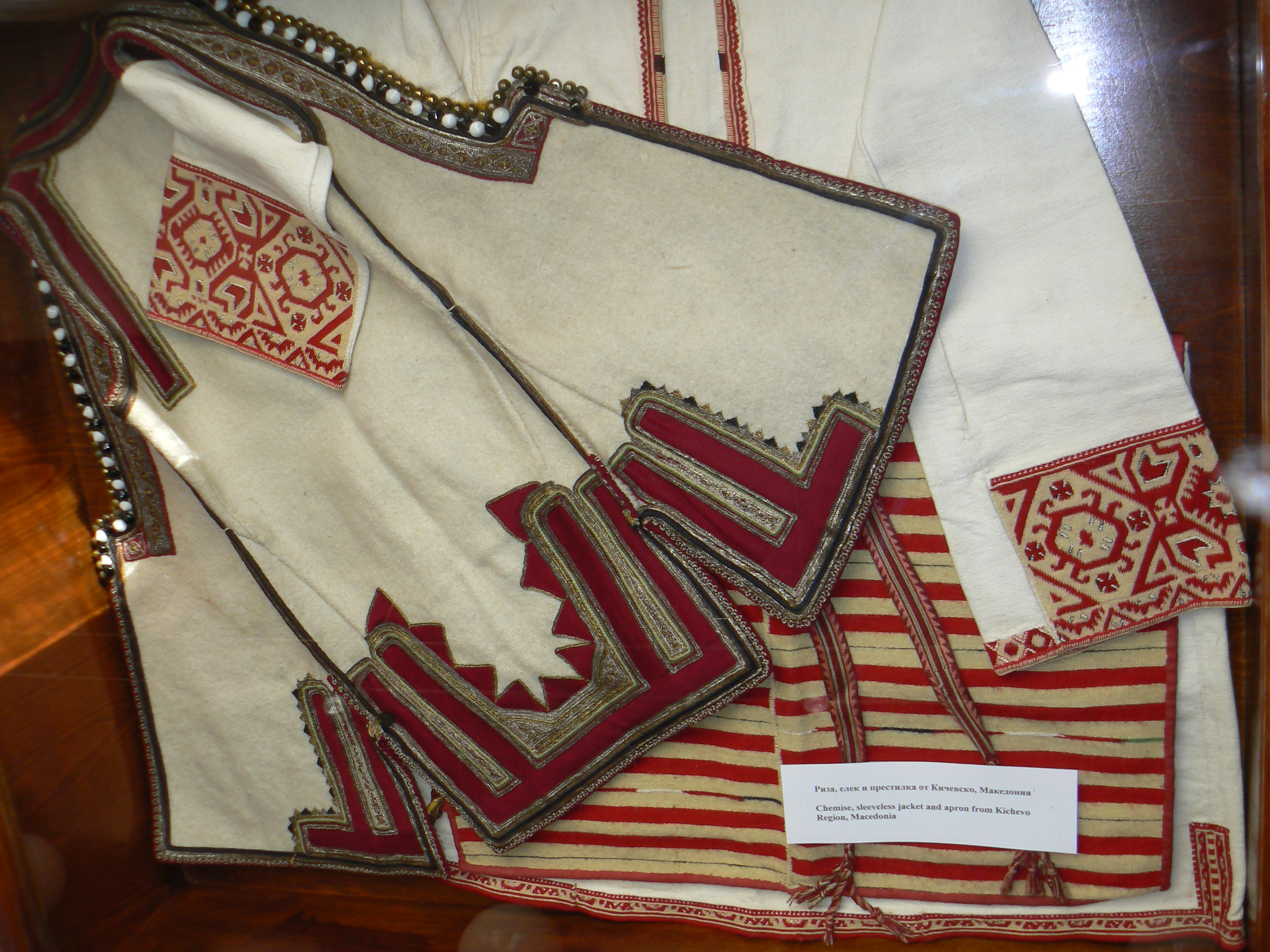 Shirt, bodice and apron from Kichevo region; exhibits of the Burgas ethnographic museum